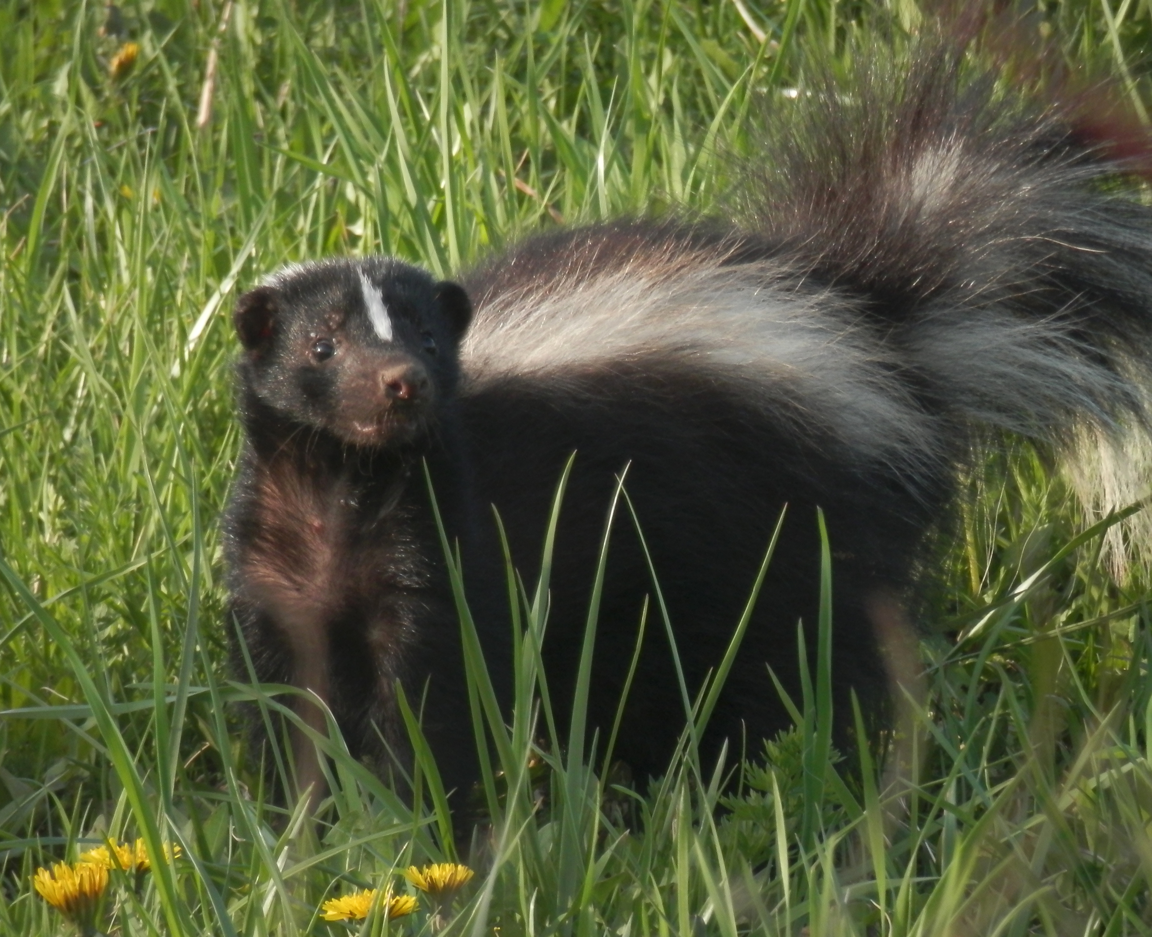 Striped Skunk (Mephitis mephitis) in Guelph, Ontario, Canada.